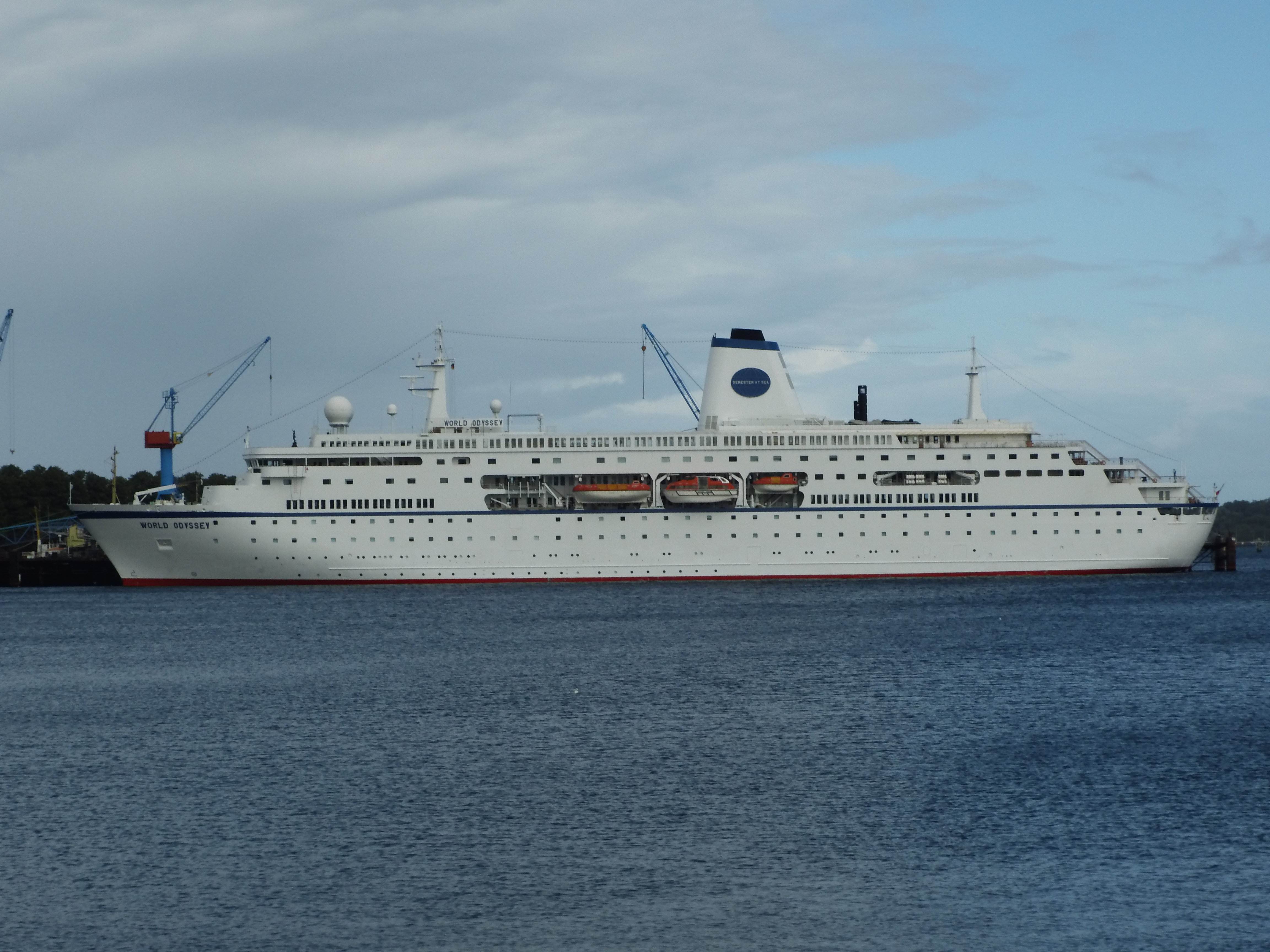 World Odyssey at Lindenau Shipyard Kiel